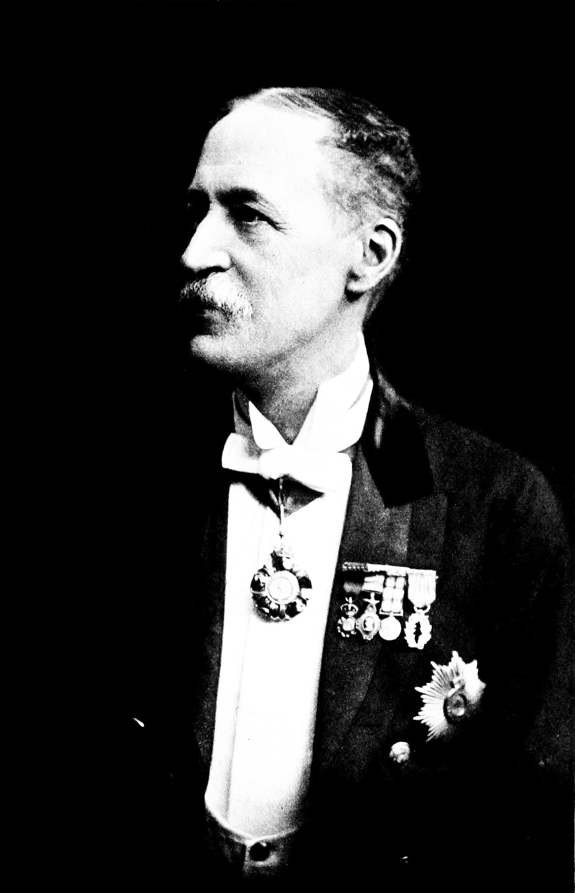 Photographic portrait of H. H. Risley, colonial administrator and ethnologist